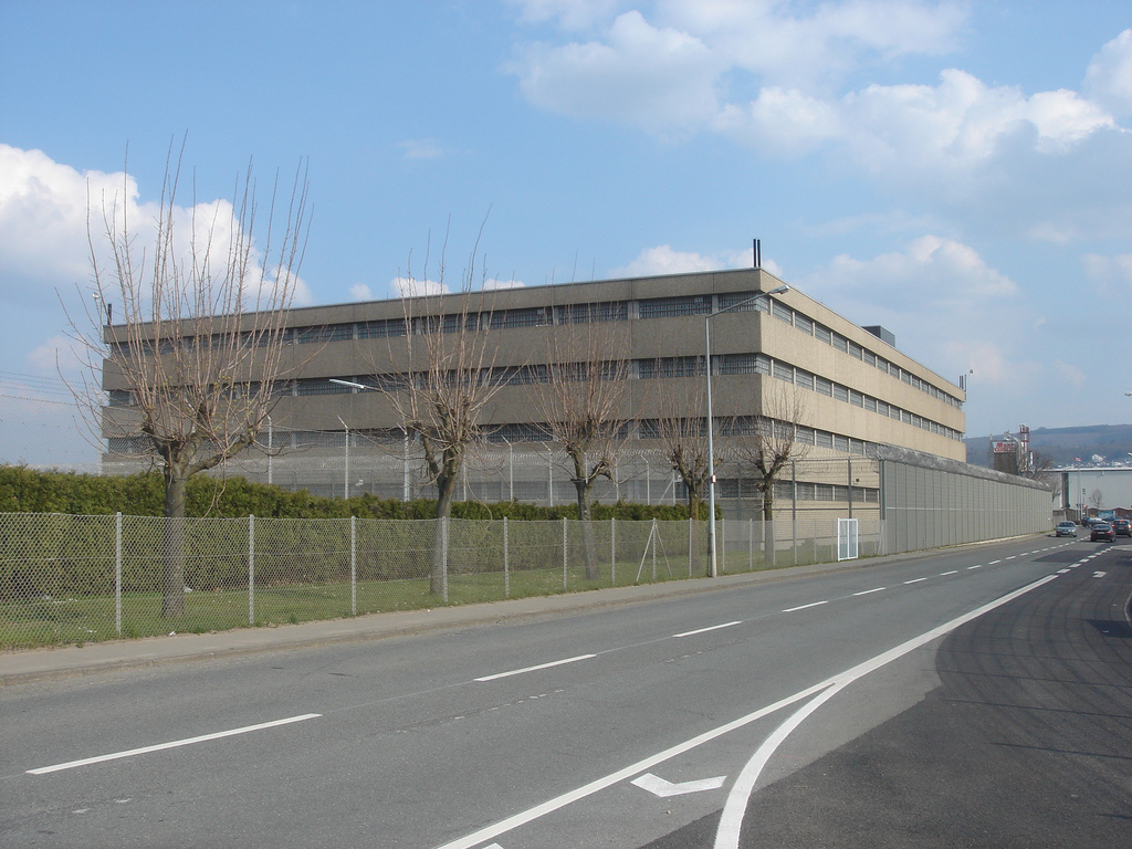 Prison of Trier, Germany